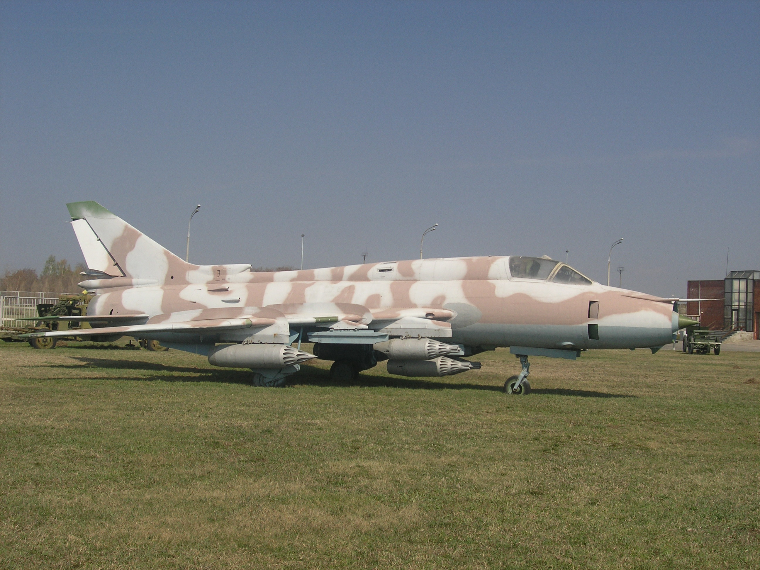 Su-17M4, technical museum, Togliatti, Russia